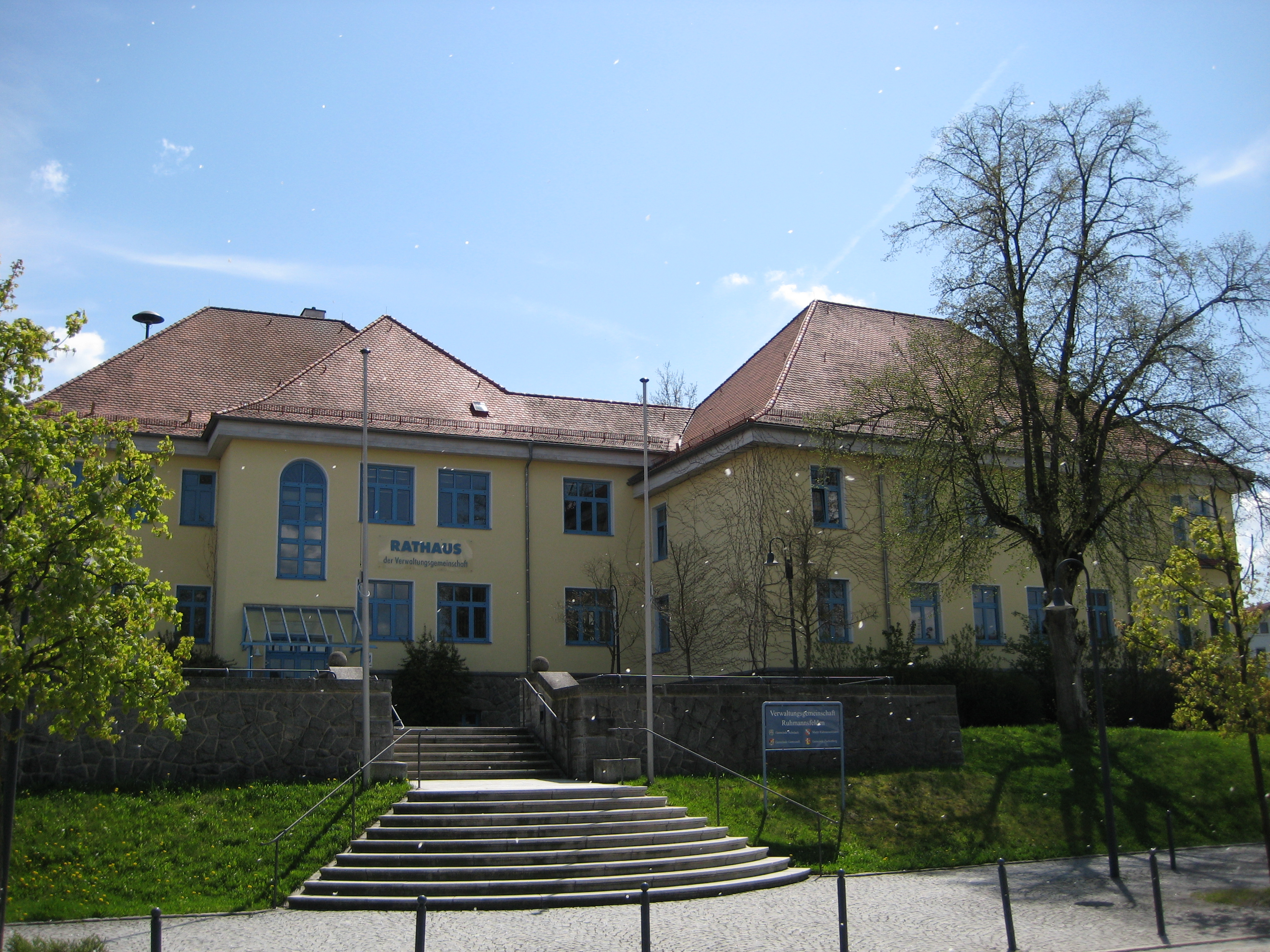 Town hall of Ruhmannsfelden, Lower Bavaria